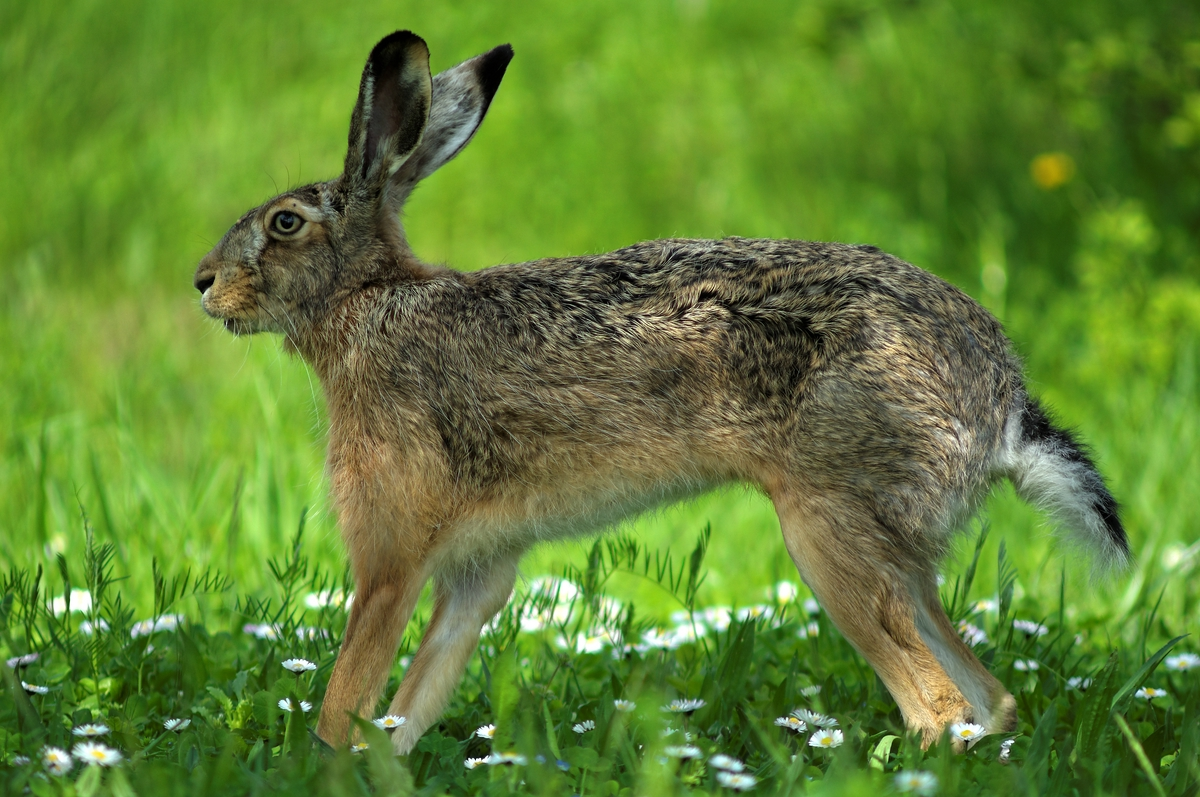 European hare